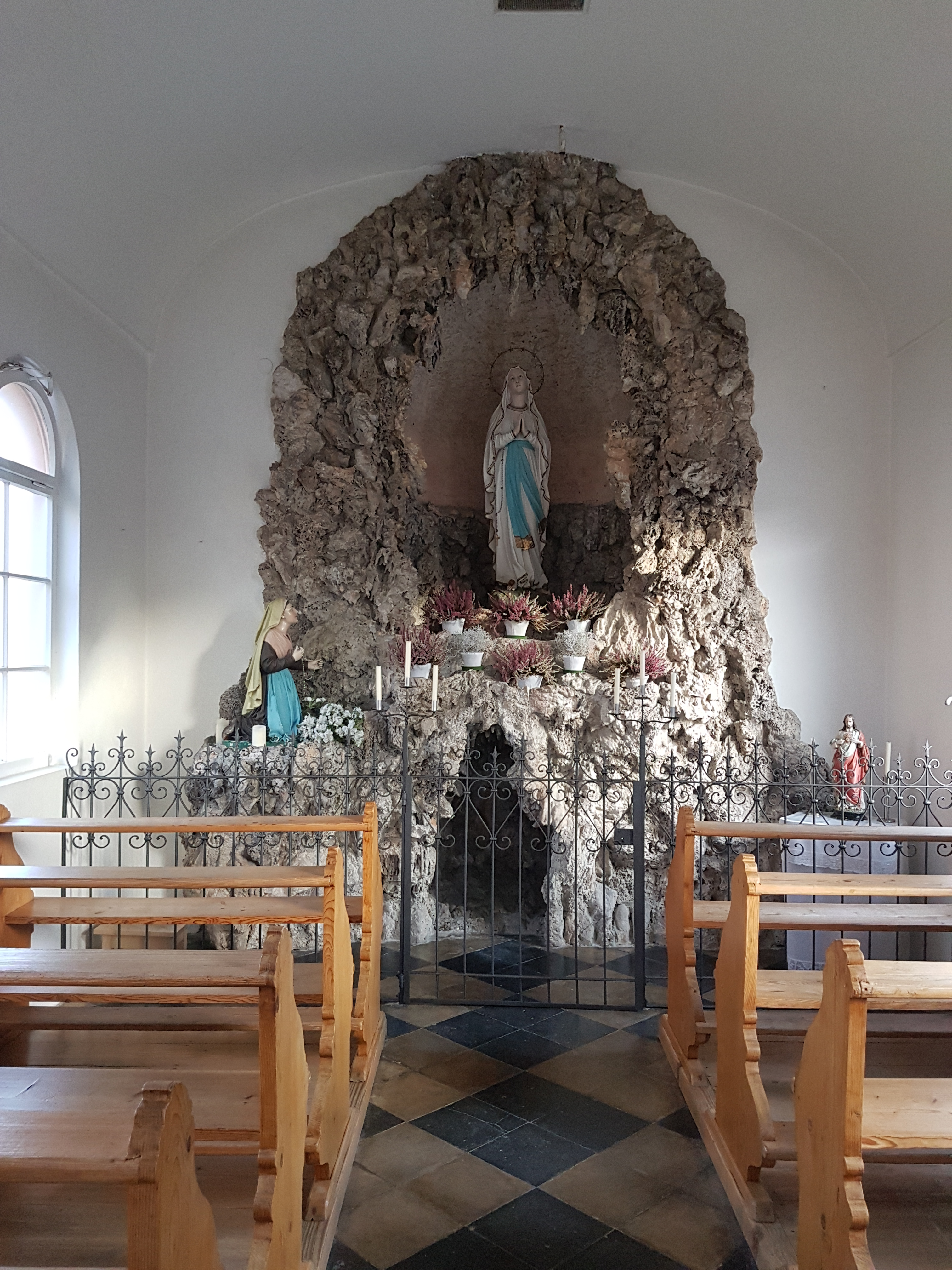 Lourdes Chapel in Lauterach, Vorarlberg, Austria.